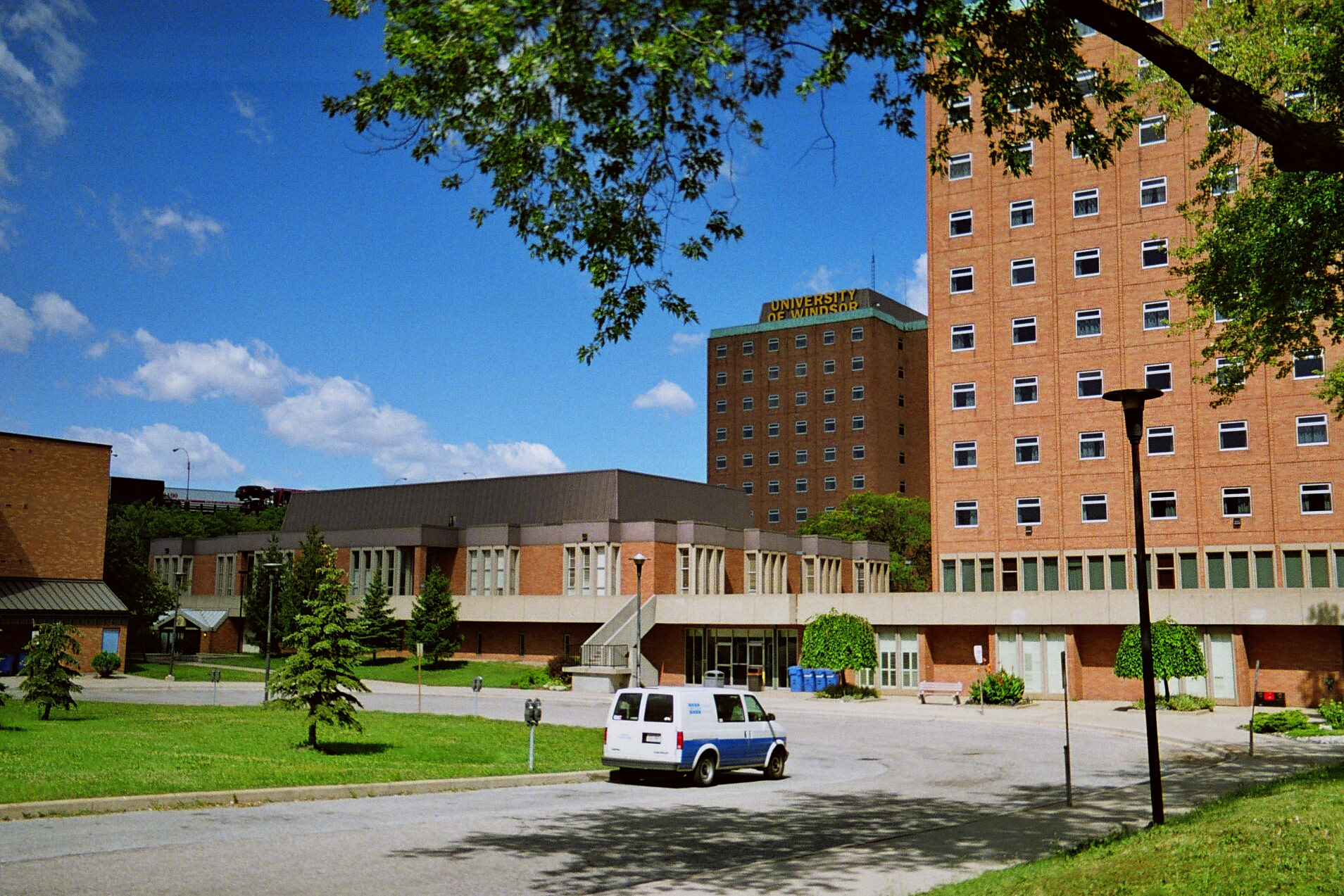 Photo shot by me of campus residences, U of Windsor Category:Images of Windsor, Ontario